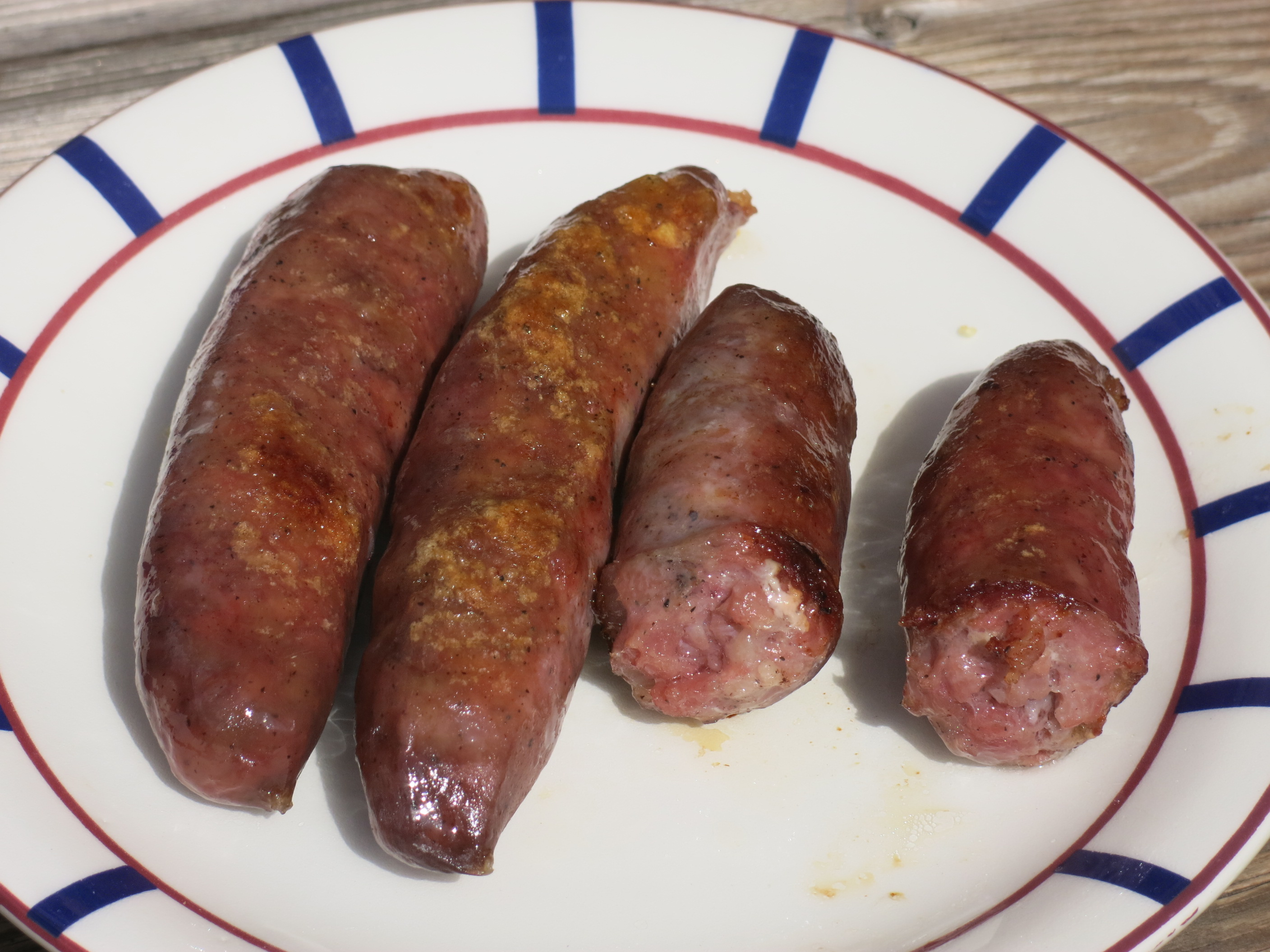 Roasted lukinkes (basque sausages) (Pyrénées-Atlantiques, France).